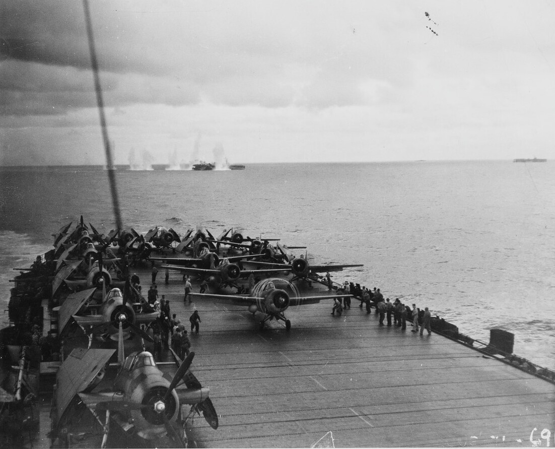 The U.S. escort carrier USS Kitkun Bay (CVE-71) prepares to launch Grumman FM-2 Wildcat fighters of composite squadron VC-5 during the Battle off Samar on 25 October 1944. The aircraft visible on the left are Grumman TBF Avengers. In the distance, Japanese shells are splashing near the USS White Plains (CVE-66). AWM caption: off Samar, Philippines. 1944-10-25. just after 0700 the sea around the escort aircraft carrier USS White Plains erupts as she is straddled and near missed by 14 inch gunfire from Japanese battleships which have surprised the escort carrier task group 77:4:1. In the foreground is the flight deck of her sister ship, USS Kitkun Bay. The Kitkun Bay's air group is ranged on the flight deck aft. The first of its twelve FM-2 Wildcat fighters is just commencing its take off run as the second is readied to follow. The fighters carry only drop tanks - there has been no time to arm them with bombs. The six larger aircraft on the left are Grumman TBF Avenger bombers. (Naval Historical Collection)